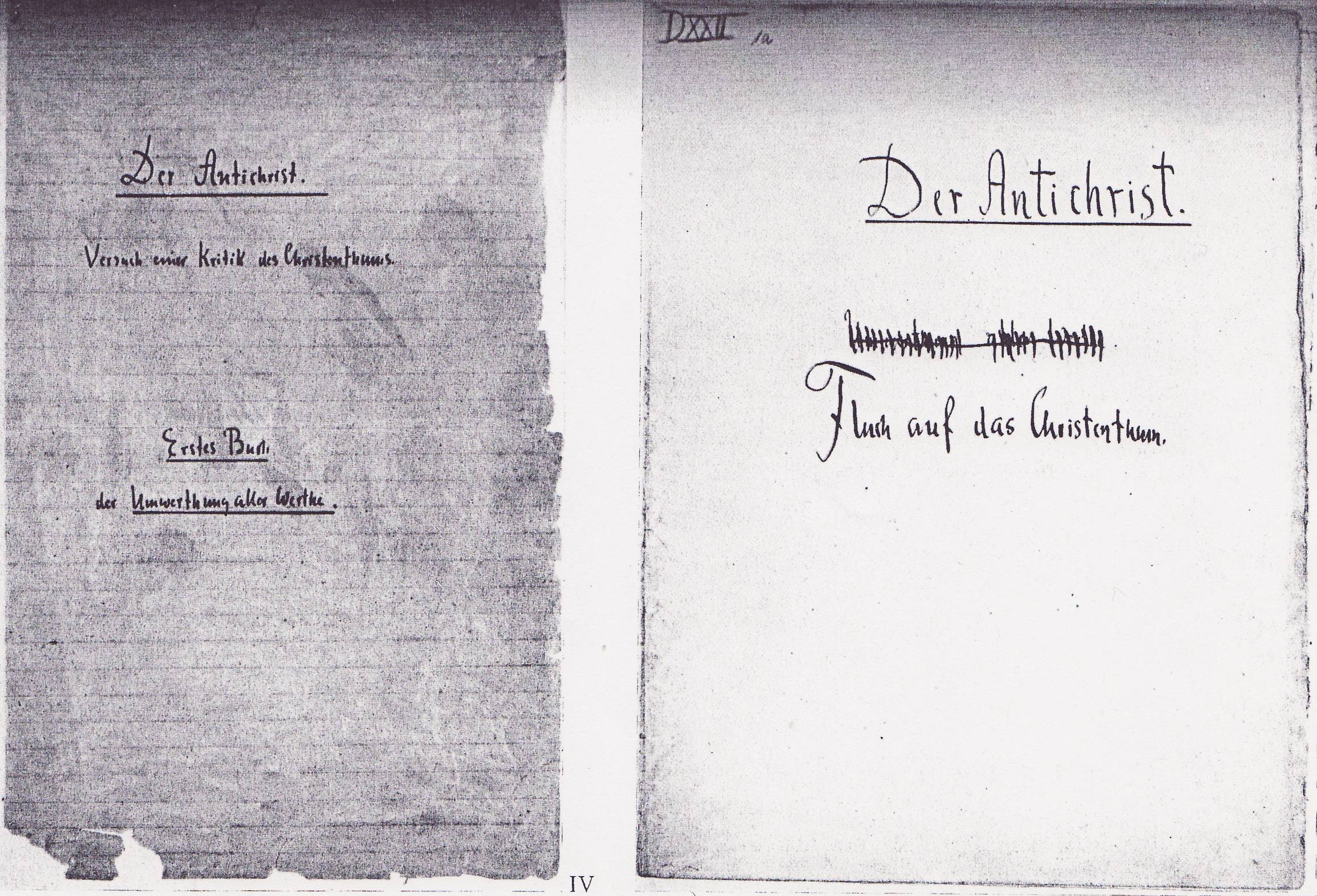 The two preserved title pages for Friedrich Nietzsche's Der Antichrist. The earlier one (presumably from September 1888, left) shows AC as the first book of Umwerthung aller Werthe ("Revaluation of all values"). The right one, presumably from November / December 1888, has Der Antichrist as main title. Umwerthung aller Werthe first remains as a subtitle for this work, but then Nietzsche crossed it out and replaced it with Fluch auf das Christenthum ("Curse on Christianity"). Several letters from November and December 1888 also show that Nietzsche abandoned the four-book project of "Revaluation" and regarded Der Antichrist as a completed work. Facsimile from Erich Podach: Friedrich Nietzsches Werke des Zusammenbruchs, Heidelberg 1961, figures IV and V after p. 432. Manuscript D XXII in the Goethe- und Schiller-Archiv, Weimar.